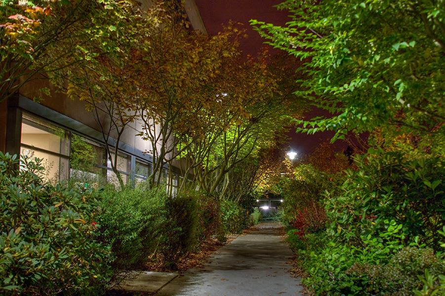 View of the Redmond West campus